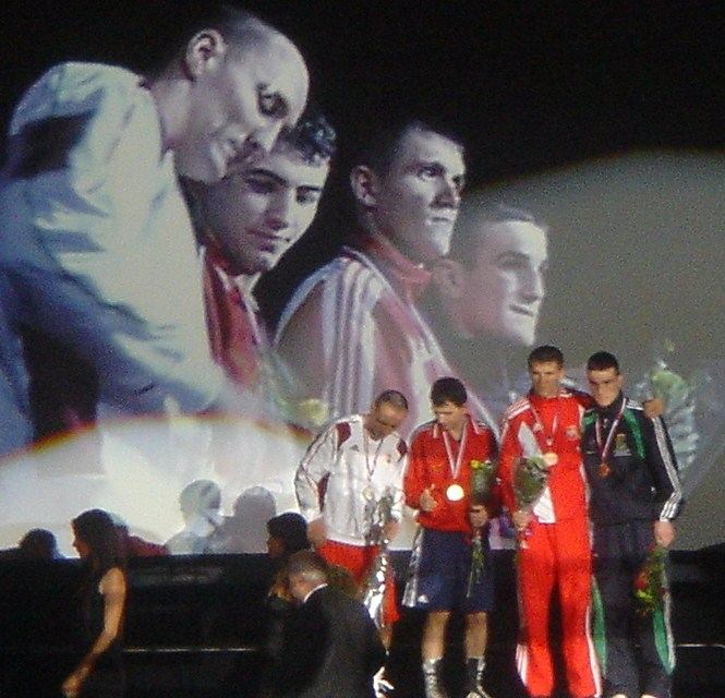 Eduard Hambardzumyan, Gyula Kate, John Joe Joyce and Marcin Legowski